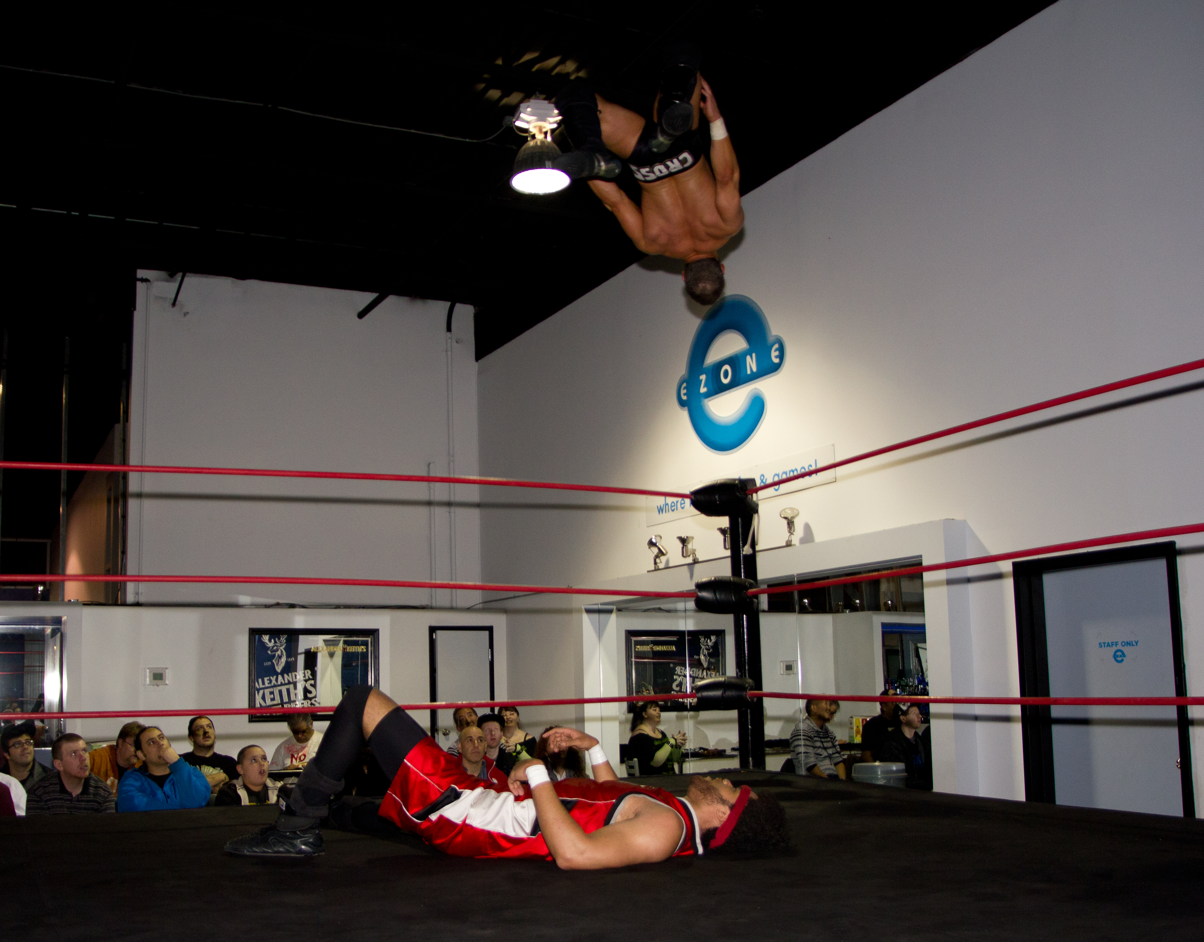 Matt Cross executing a shooting star press onto Brent Banks.